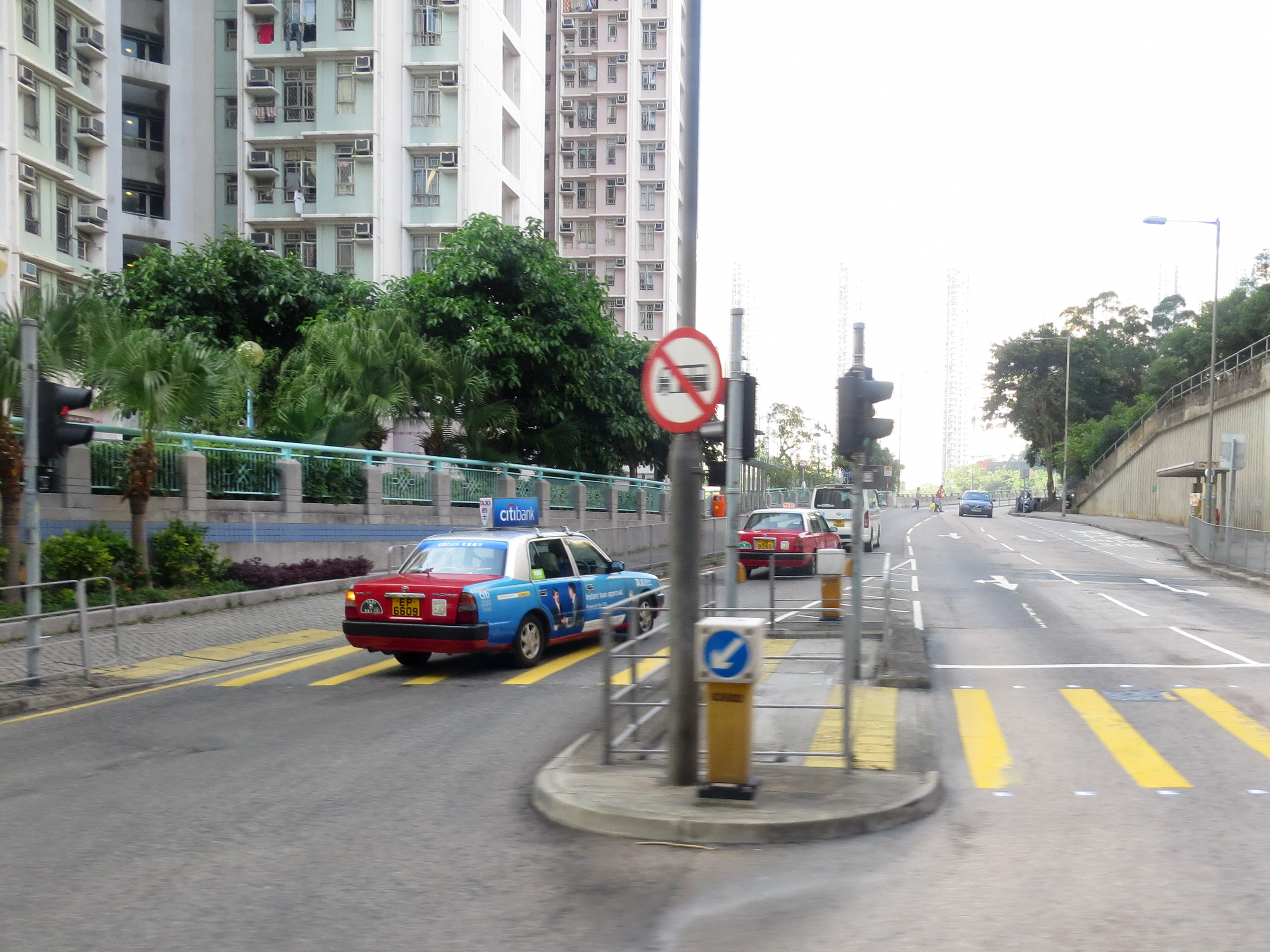 Lin Tak Road near Tak Tin Street, Lam Tin, Hong Kong.